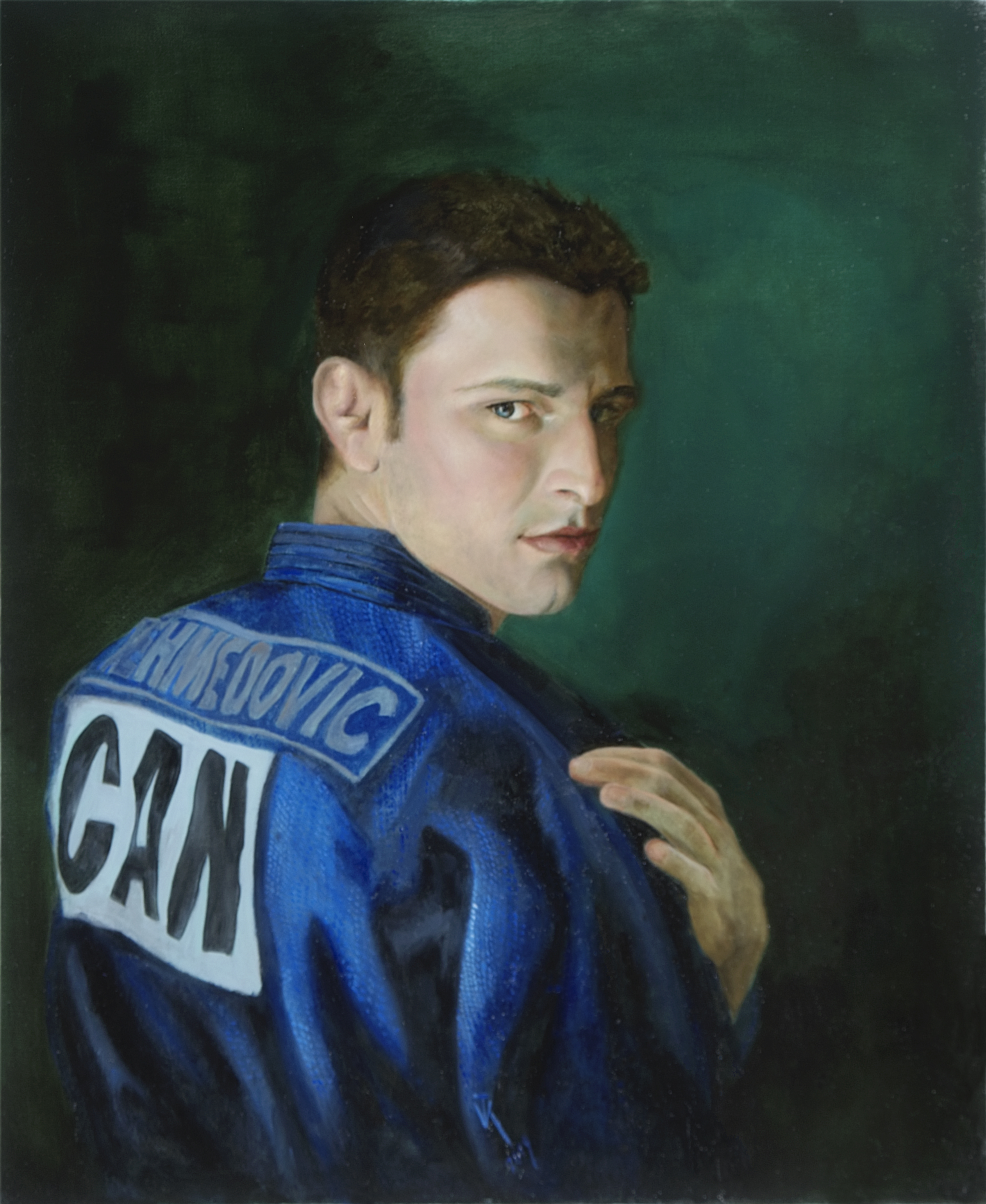 Portrait of Sasha Mehmedovic, Judo athlete. Oil on Canvas